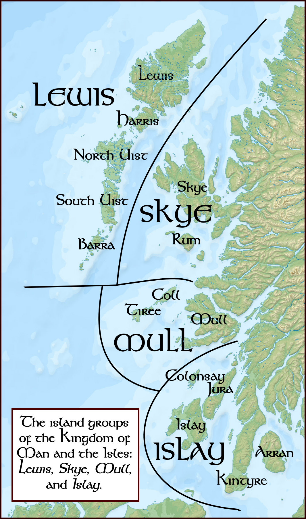 Map showing some of the locations mentioned in the article concerning Gofraid Donn. This map is based off a map (titled "The Kingdom of Man and the Isles", on page 60) shown in The Isle of man: a social, cultural and political history, by R.H. Kinvig, 1975. Kinvig' map states that it is uncertain if Kintyre, and Arran were originally part of the Islay group.